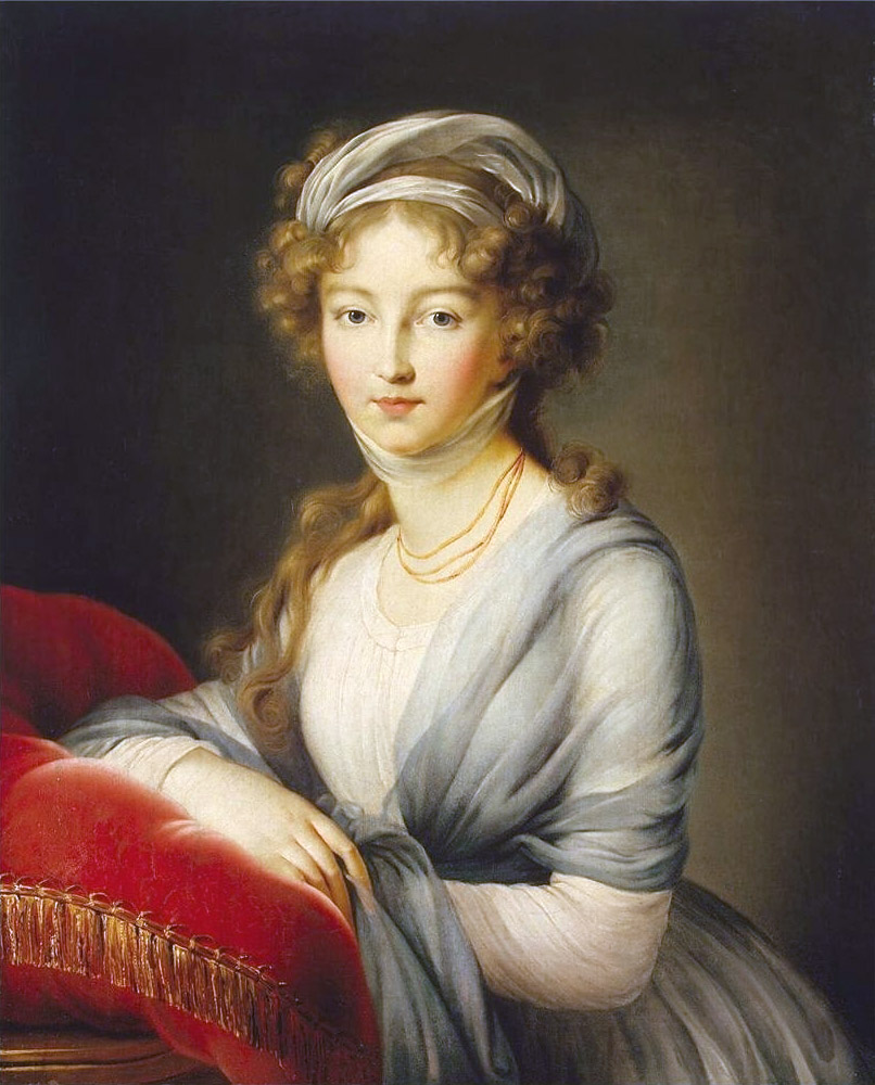 Portrait of empress Elisabeth Alexeievna of Russia